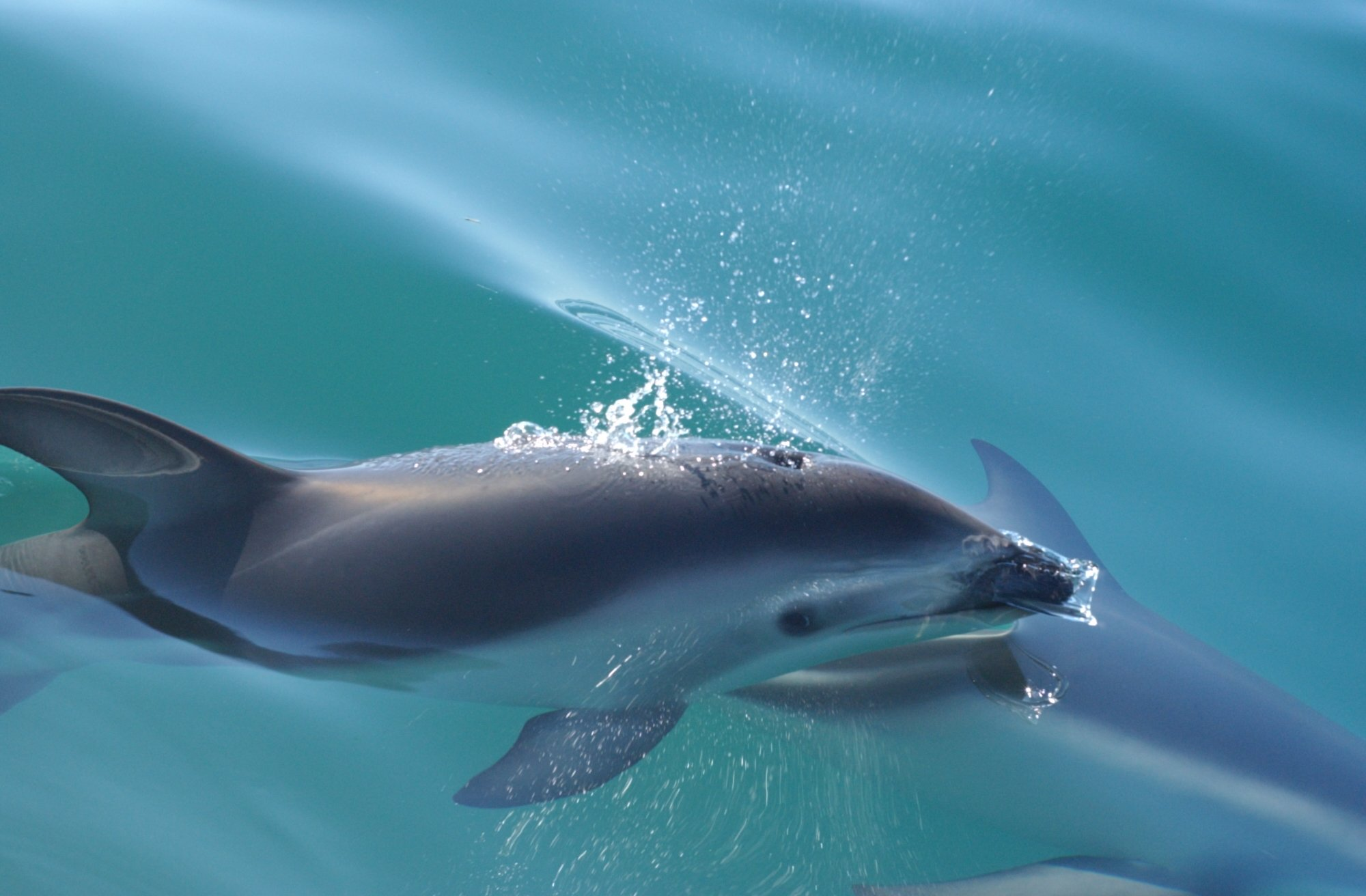 Dusky dolphin (Lagenorhynchus obscurus). New Zealand. Photographer: Dr. Mridula Srinivasan, NOAA/NMFS/OST/AMD.